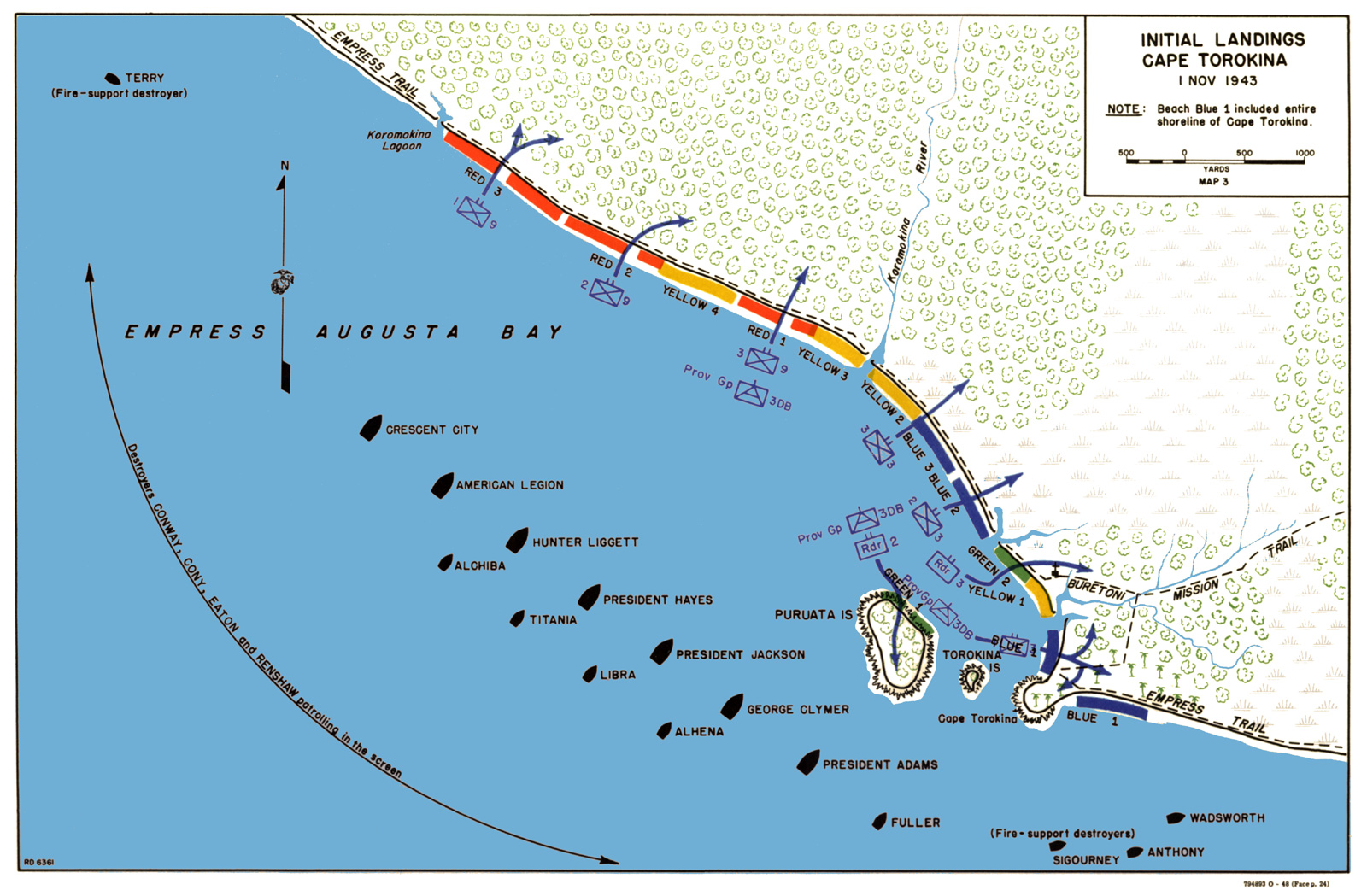 Map depicting the initial US landings on Bougainville, 1 November 1943